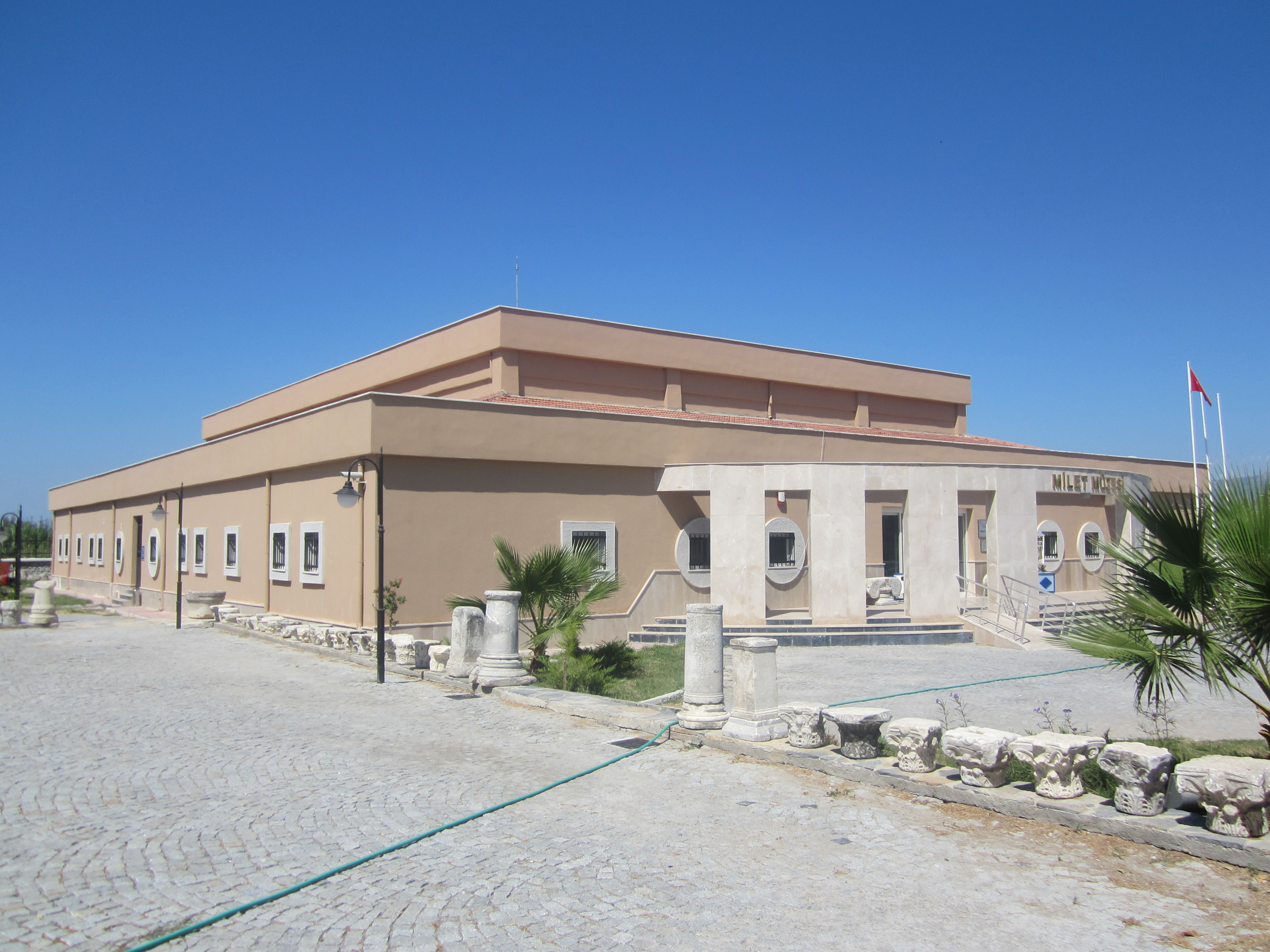 Miletus Museum, Archaeological area of Miletus, Turkey.